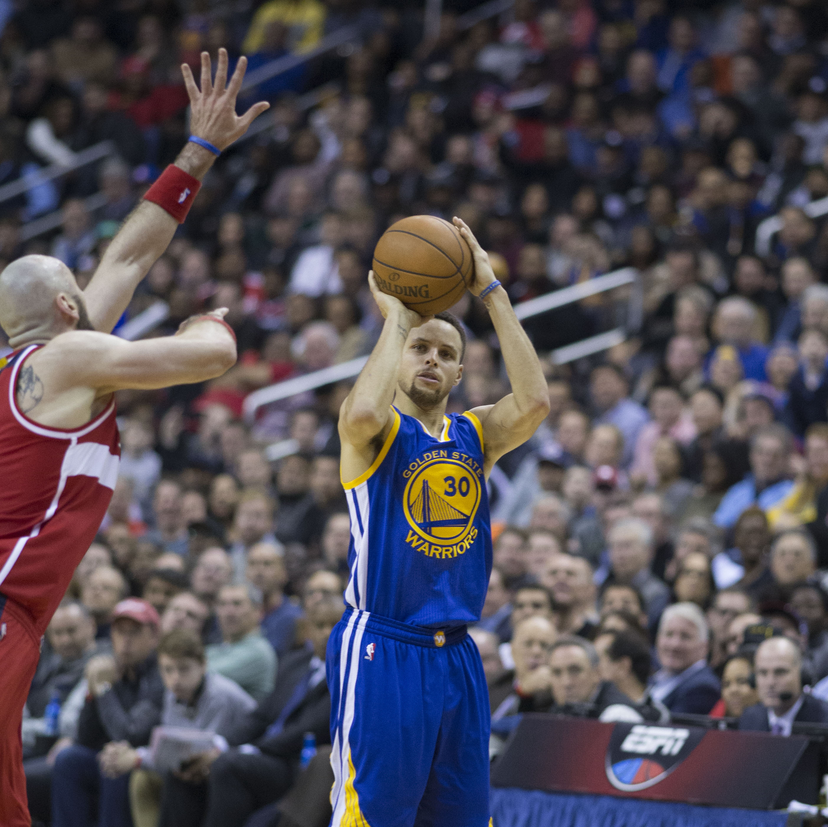 Warriors at Wizards 2/3/16